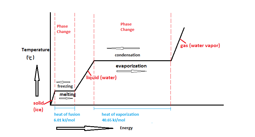 General information on phase change of water